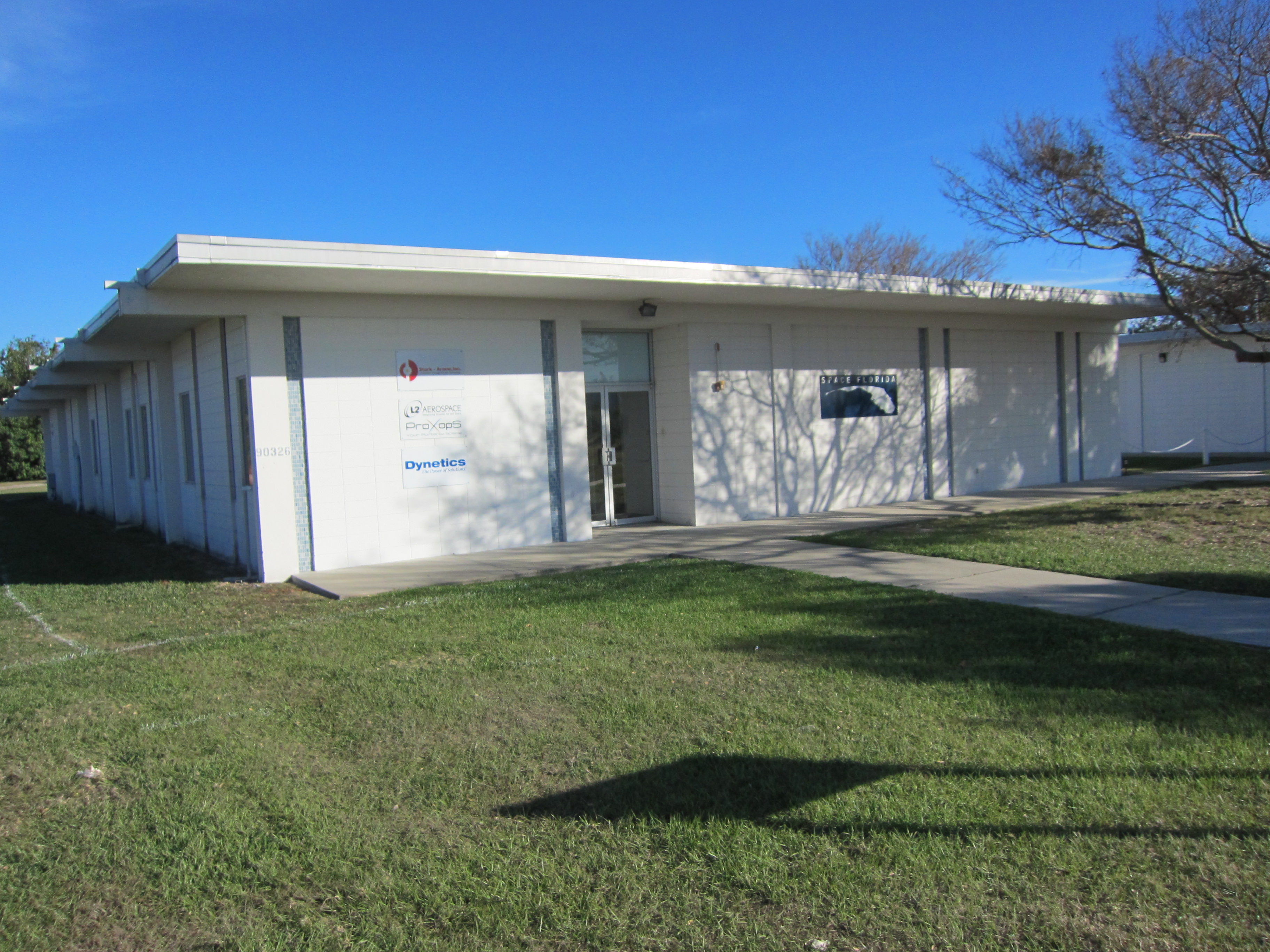 Space Florida (South Campus Office), 100 Spaceport Way, Cape Canveral, Florida. This is building 90326.